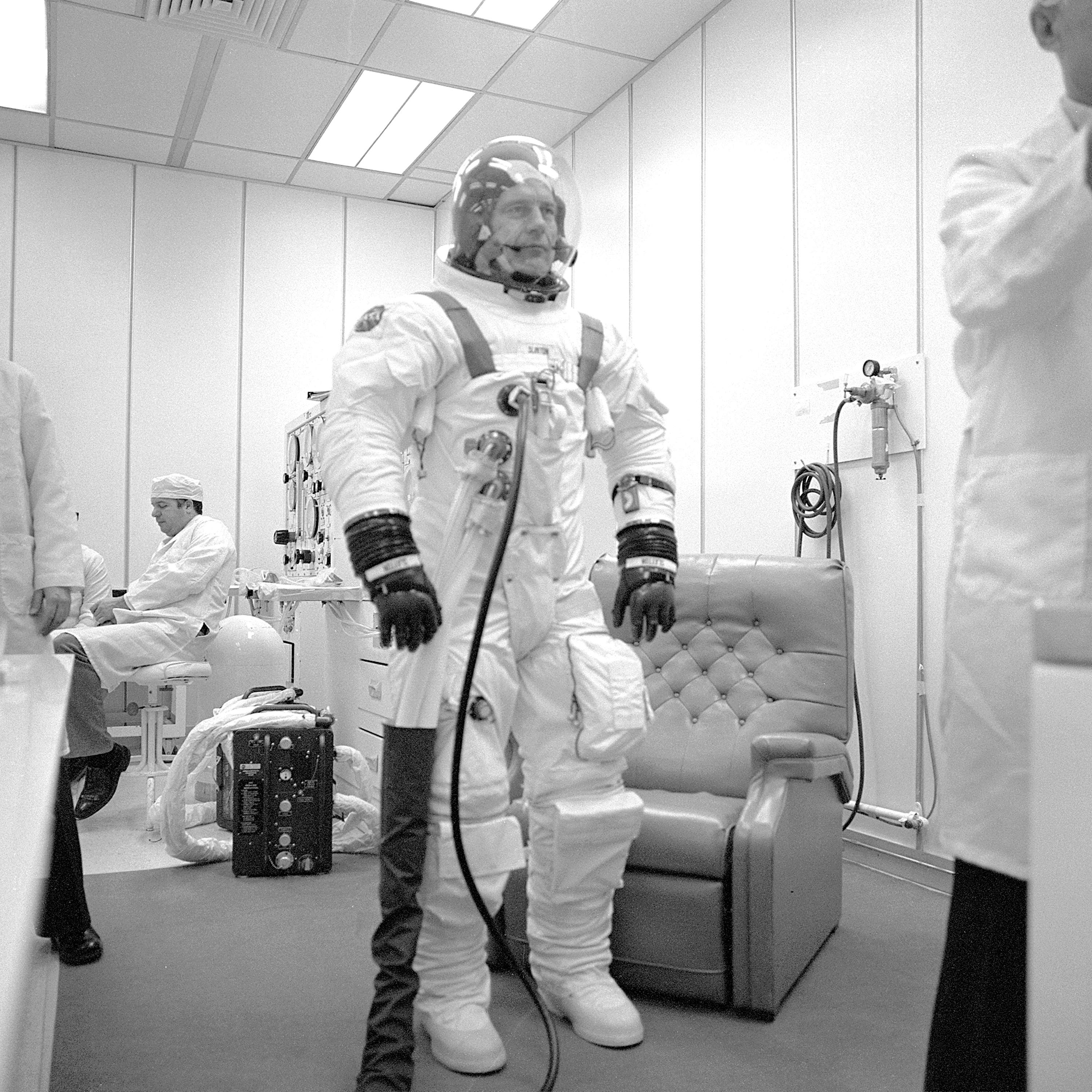 Apollo Soyuz Test Project (ASTP) Prime Crew Member Donald "Deke" K. Slayton suits up for an altitude test of the Apollo command module in an altitude chamber of KSC's Manned Spacecraft Operations Building (MSOB).